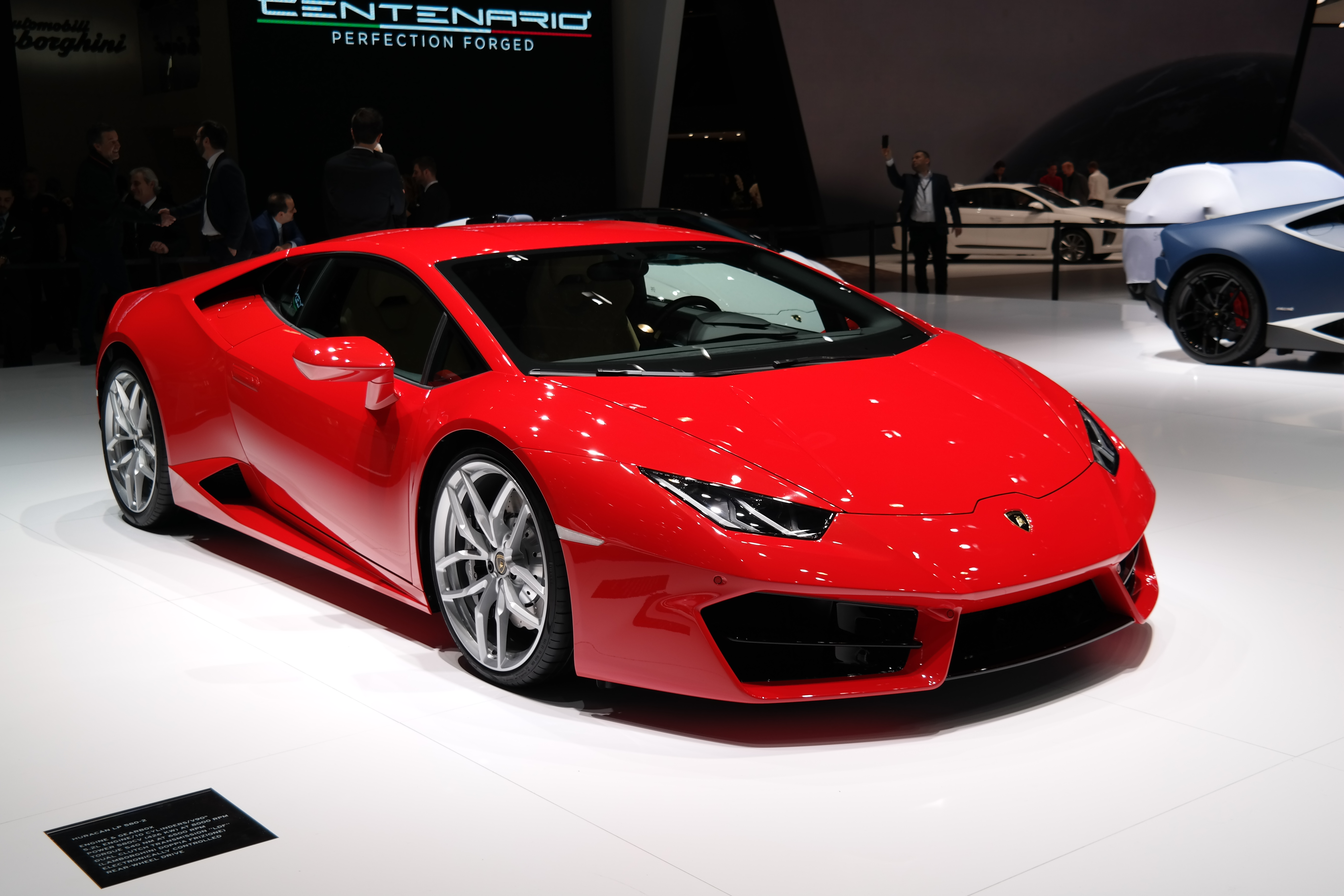 Geneva Motor Show 2016 (photo taken on the first press day)